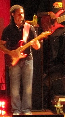 Carl Harvey performing with Toots & the Maytals, Summer Sundae festival, Leicester